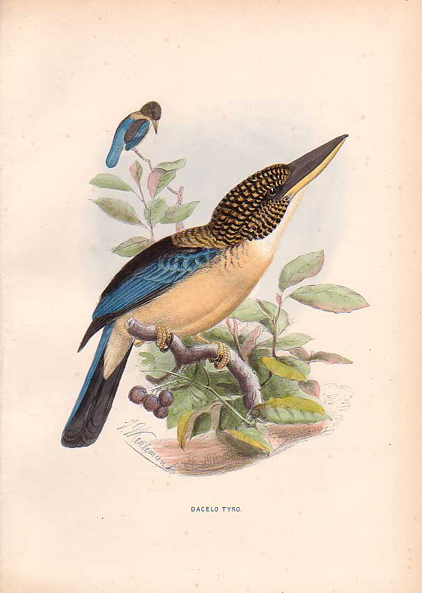 Dacelo tyro Kingfisher by Keulemans